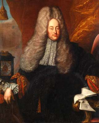 Portrais of the swis mathematician Jakob Hermann (1678-1733)